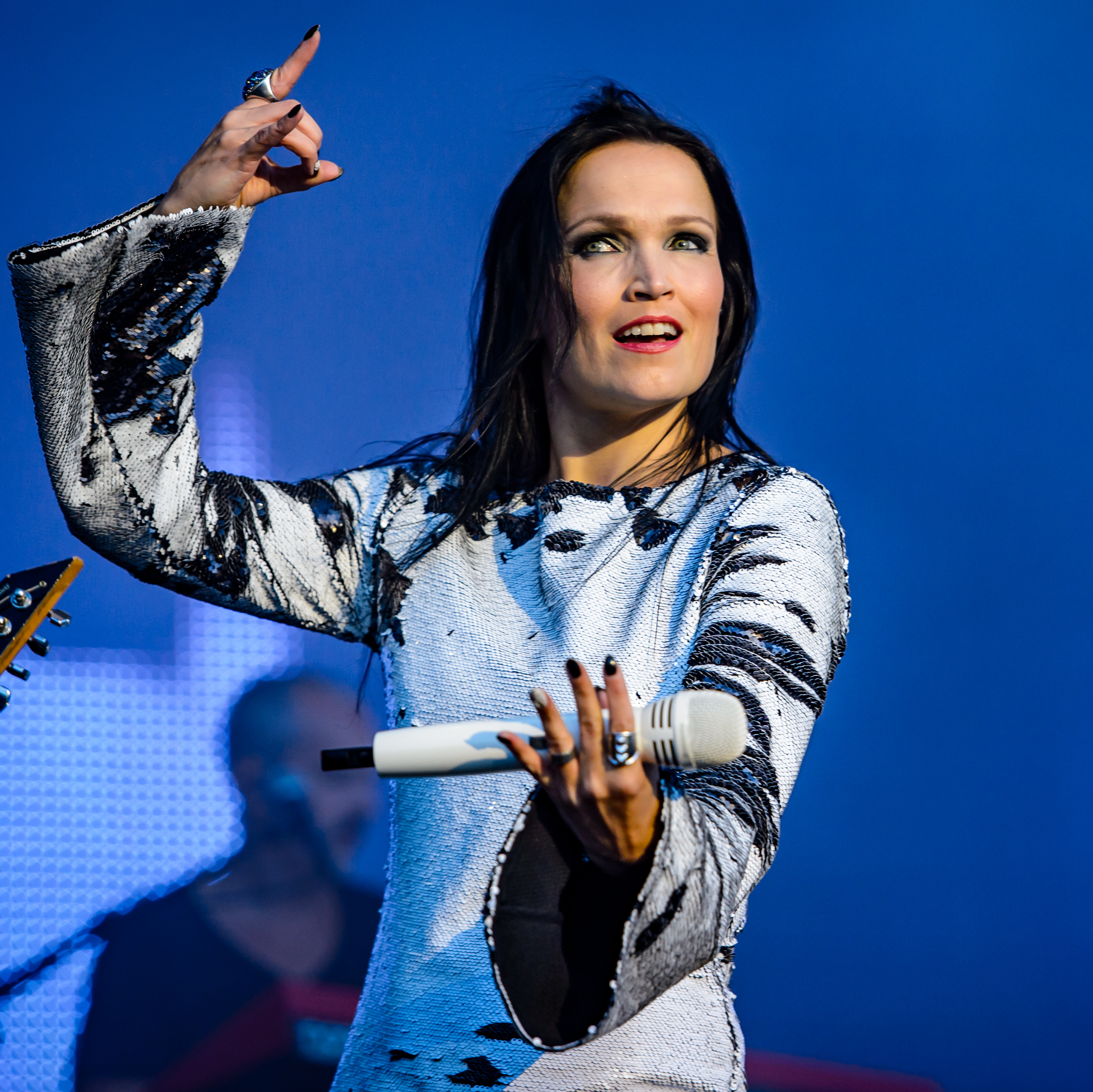 Tarja Turunen; Wacken Open Air 2016